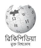 A logo for Wikipedia in the Assamese language. Uses the Lohit Assamese font.